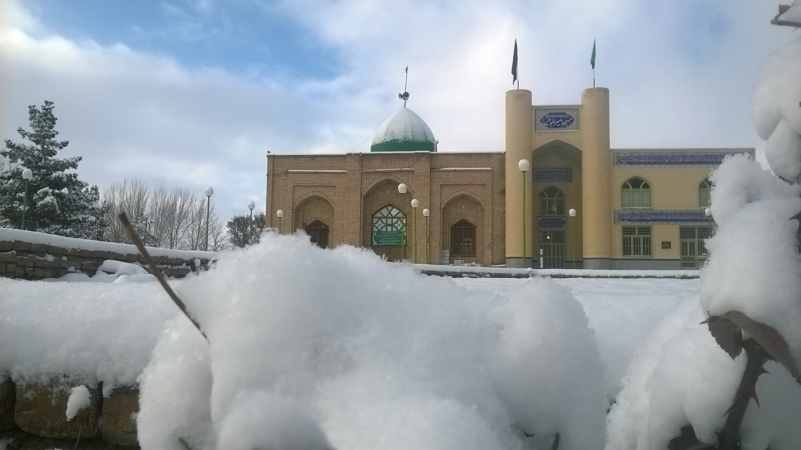 This photo was taken by Mohammad Mohammadi on Friday, January 29, 2016 at 08:06 AM.